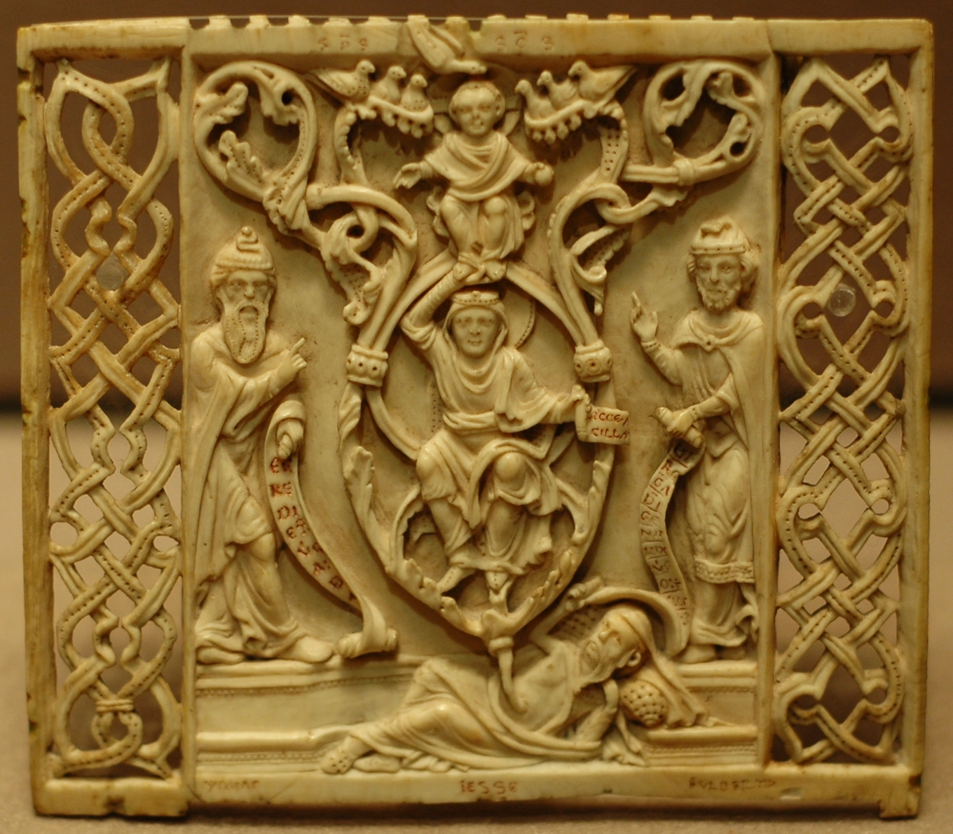 The Tree of Jesse, representing the ancestry of Jesus Christ. Ivory panel from Bamberg (?), Bavaria, ca. 1200.